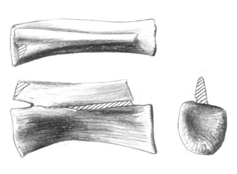 The caudal vertebra of Walgettosuchus woodwardi, BMNH R3717, in dorsal, left lateral, and distal views; in dorsal and left-lateral views, the proximal end is to the left.